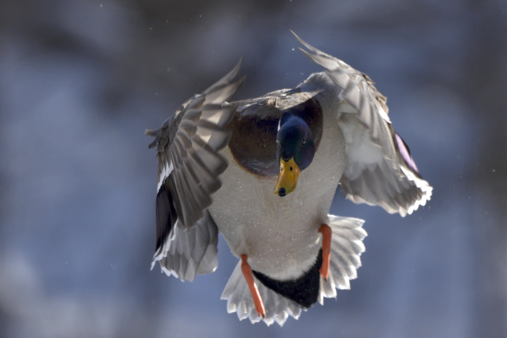 Ducks are very interesting to sit and watch. You can quickly learn when they are going to take off and fly away for example. Combine nice soft light and a high number of subjects to photograph allowed my this oppertunity.